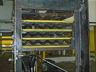 Roof tile production